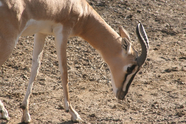 Soemmerring's Gazelle, St. Louis Zoo, 12/27/2005, Robert Lawton (self)